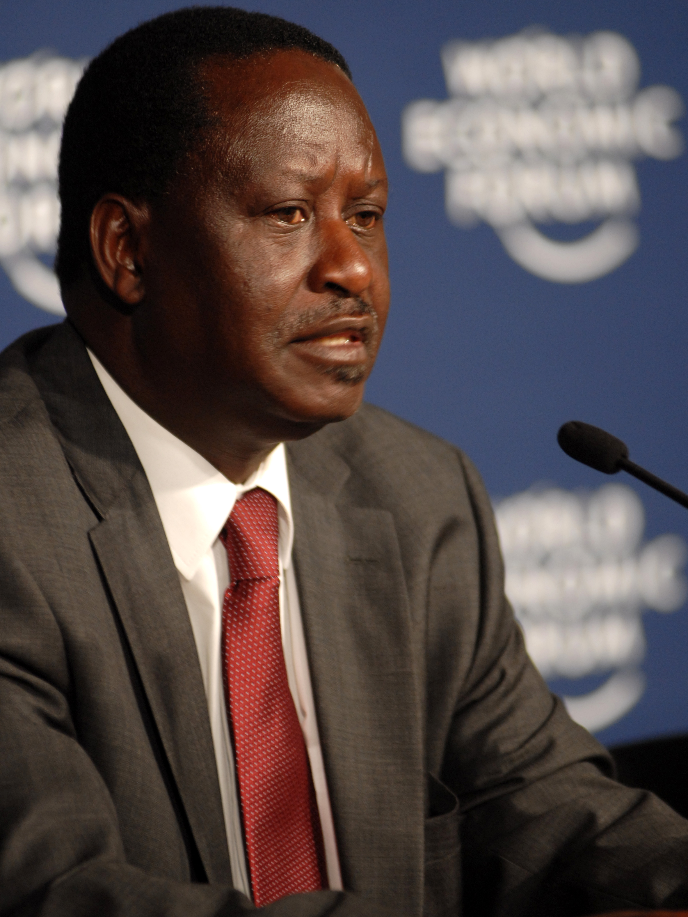 CAPE TOWN/SOUTH AFRICA, 10JUN2009 -Raila Amolo Odinga, Prime Minister of Kenya, Kenya Business Alliance Against Chronic Hunger - World Economic Forum on Africa 2009 in Cape Town, South Africa, June 10, 2009